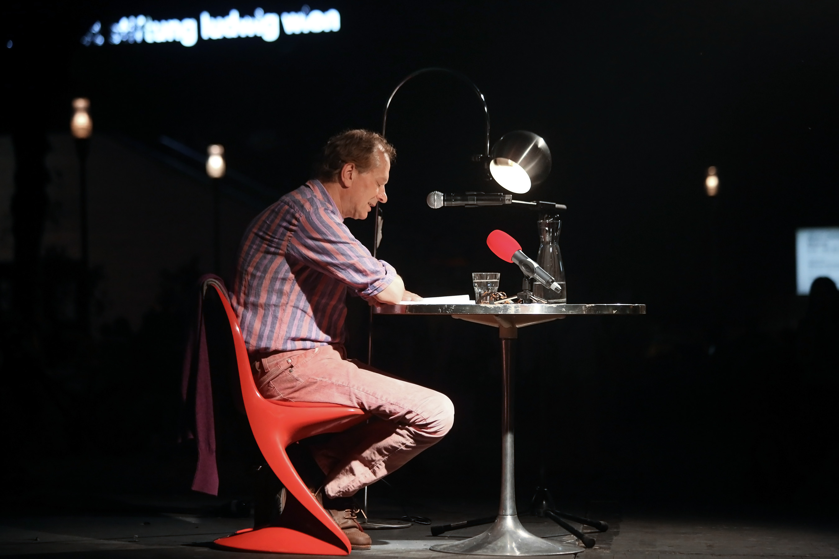 Josef Winkler, o-töne 2013 at Museumsquartier in Vienna.